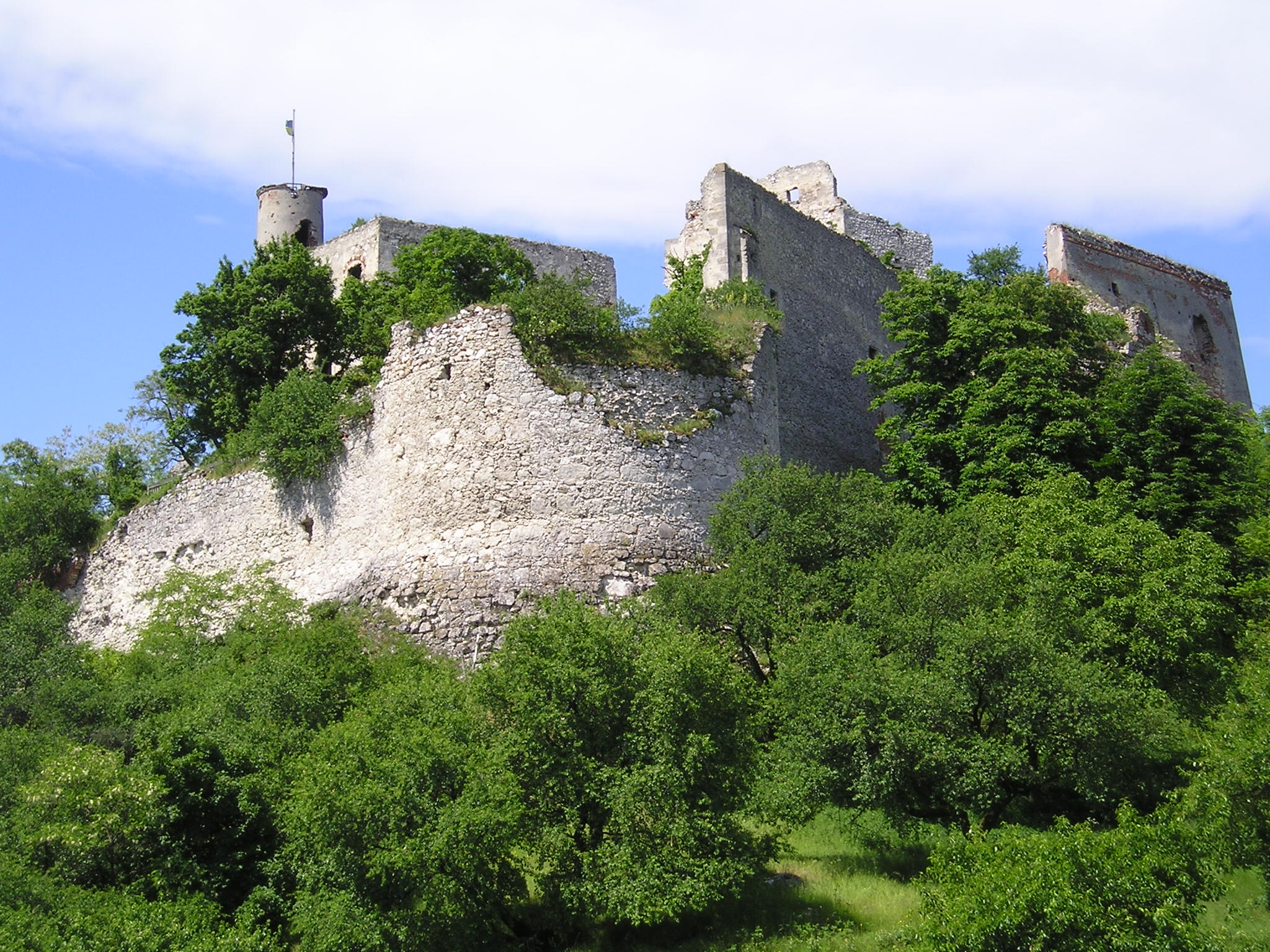 ruin Falkenstein, Lower Austria